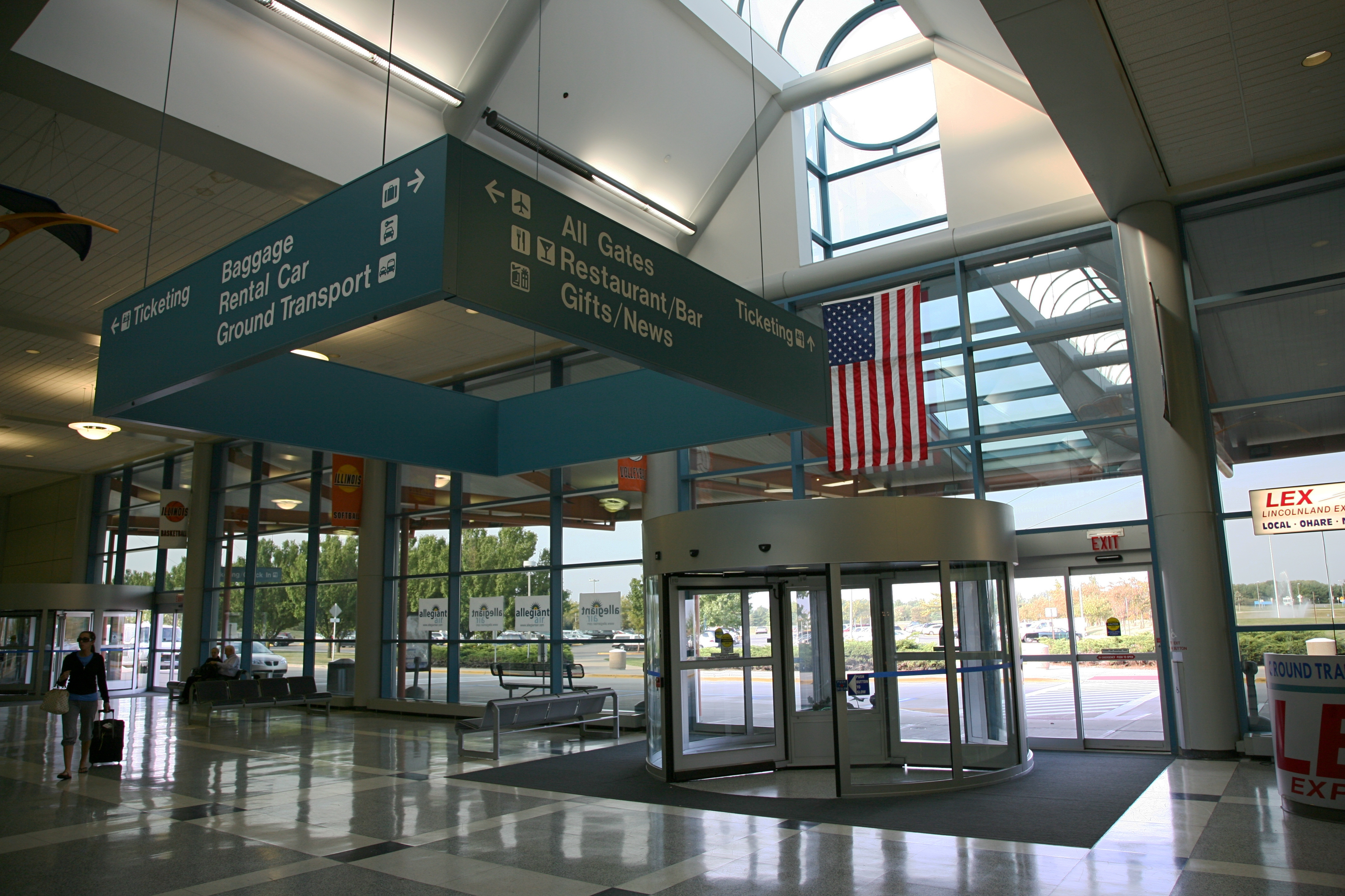 Terminal in Willard Airport in Urbana-Champaign, Illinois, USA